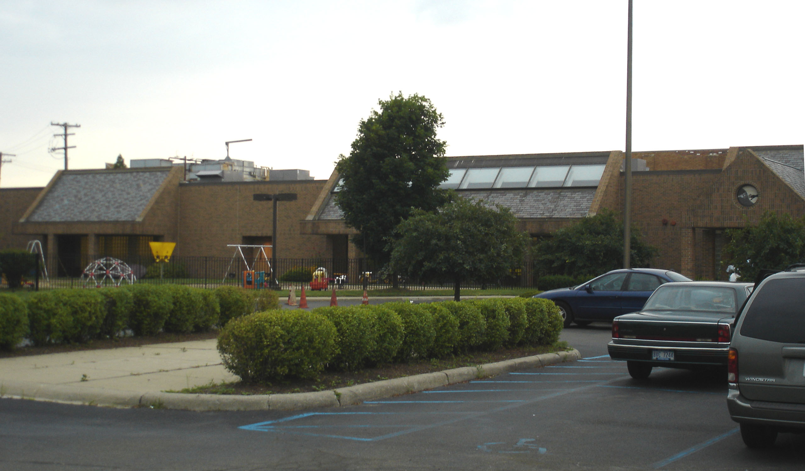 Focus: HOPE Center for Children - front of building